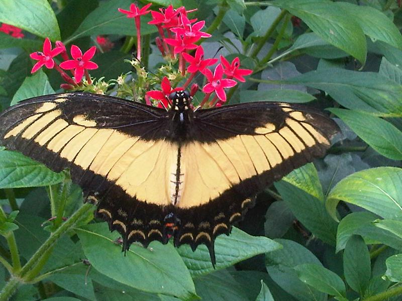 Male Androgeus Swallowtail or Queen Swallowtail (Papilio androgeus) Cramer, (1775) on Egyptian Starcluster (Pentas lanceolata) flowers in a butterfly exhibition at the Natural History Museum in London, England.